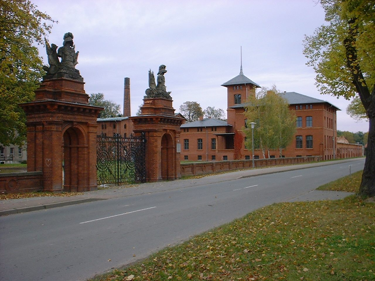 Gate in Nauen-Groß Behnitz in Brandenburg, Germany